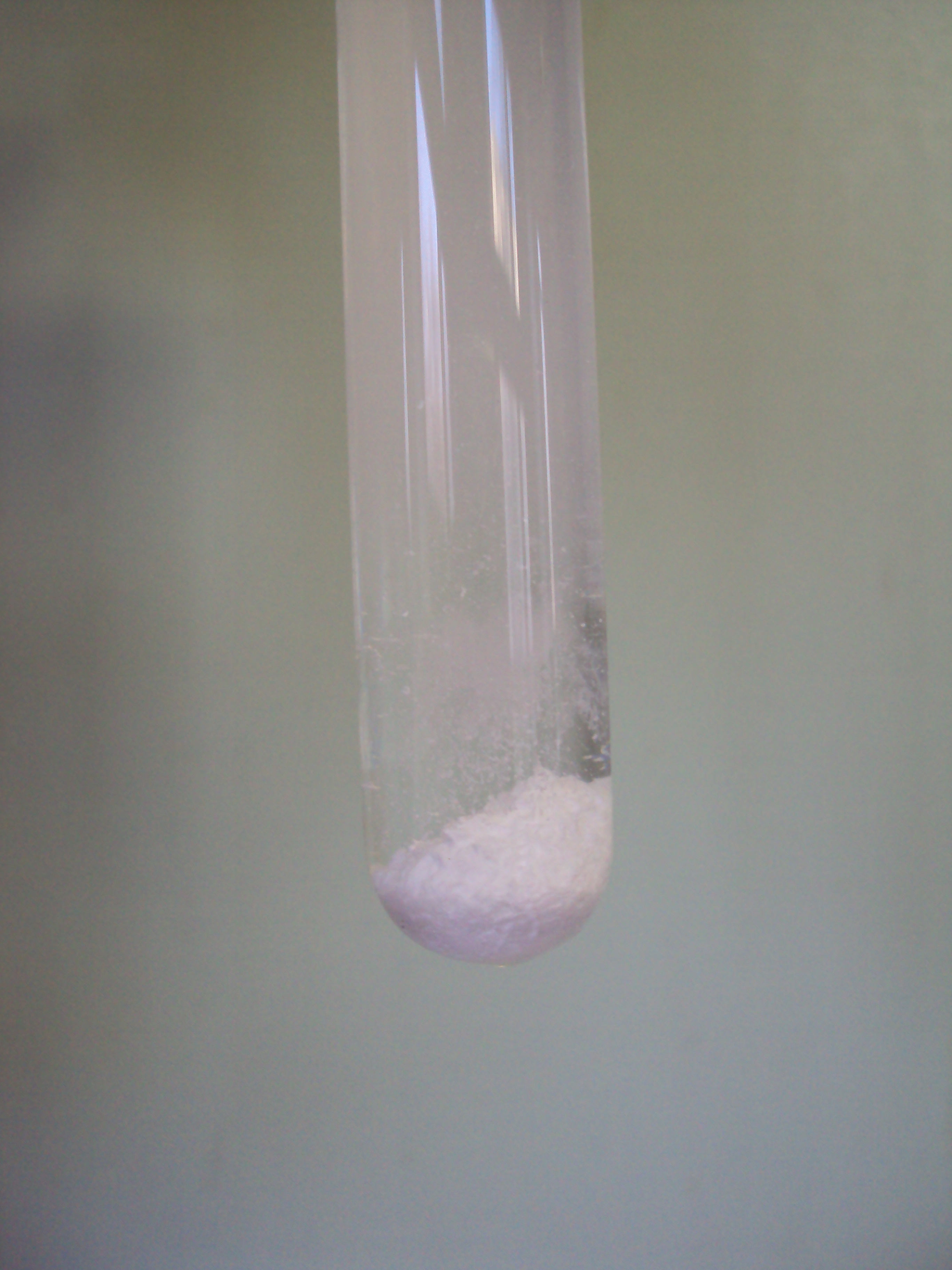 AgCl precipitate